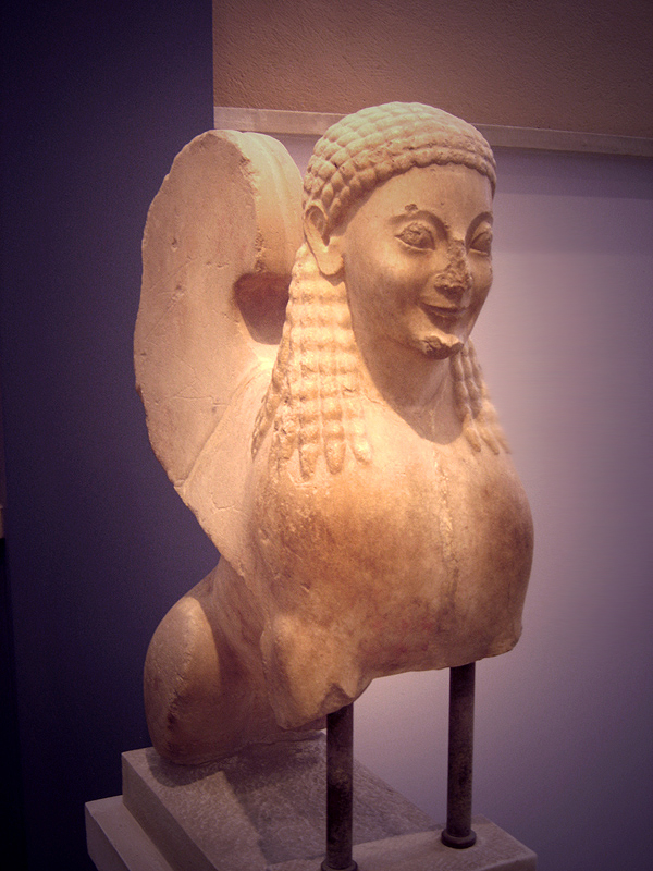 Votive Sphinx